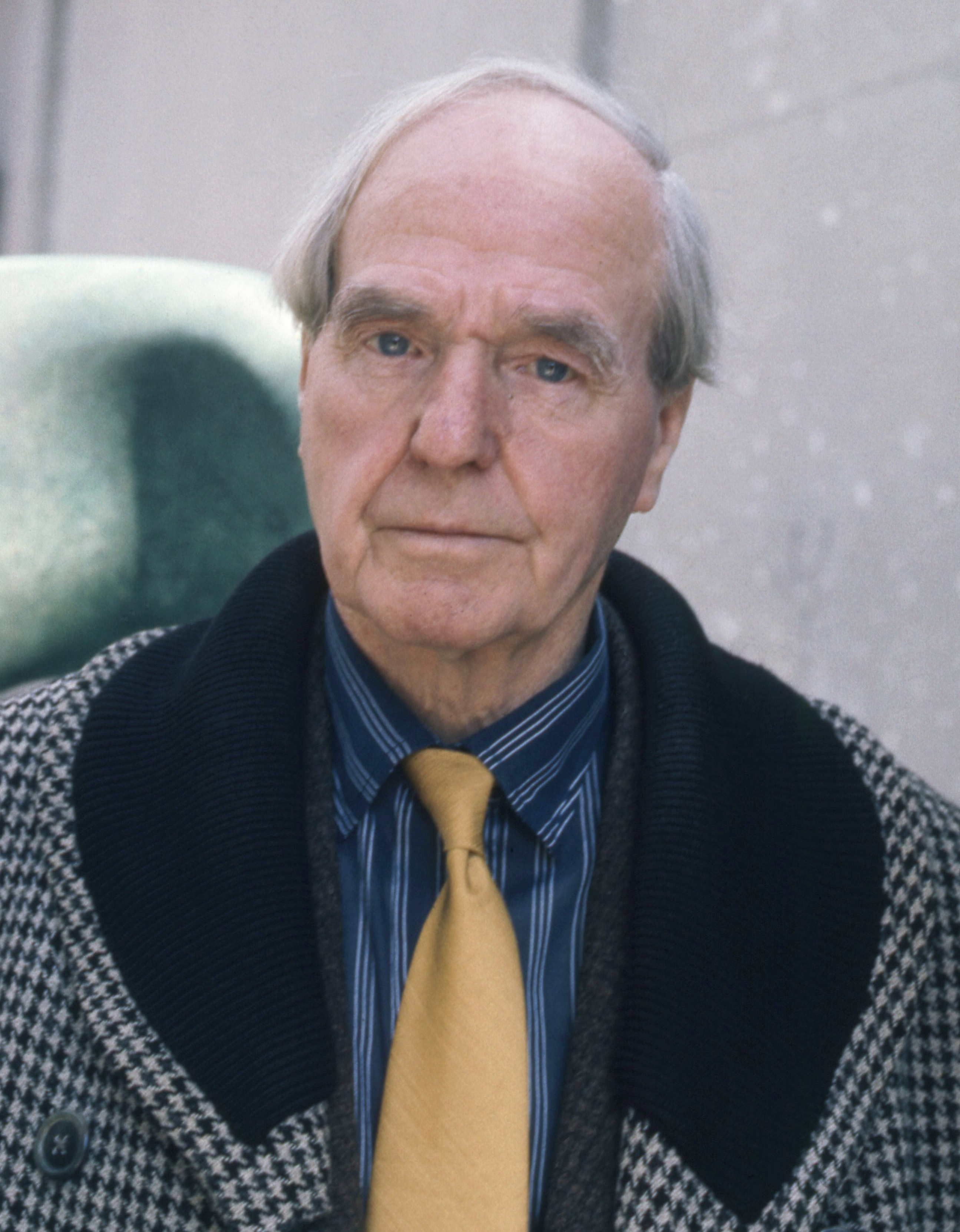 Henry Moore in his studio England